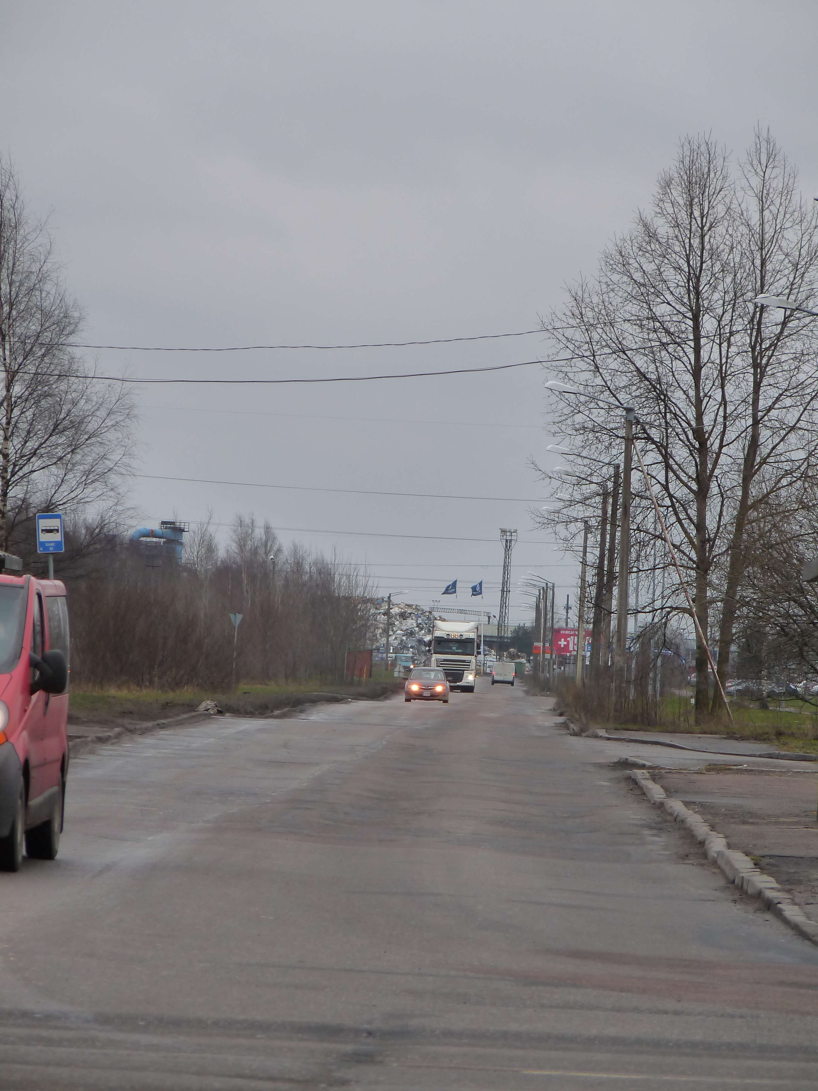 Betooni street in Tallinn, Estonia